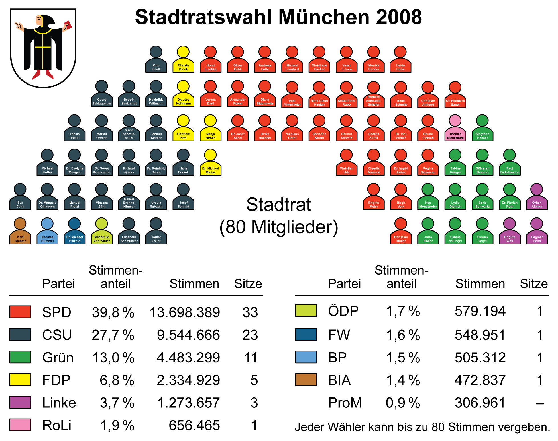 Results of the communal elections of Munich 2008, also showing the names of the council members